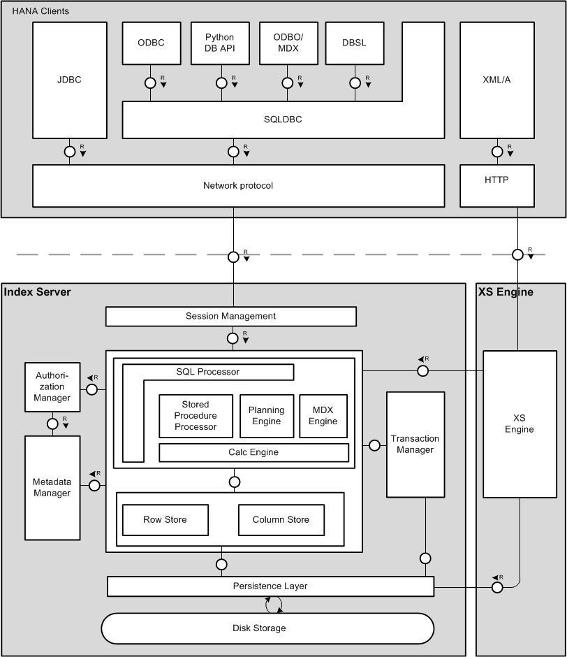 SAP HANA architecture